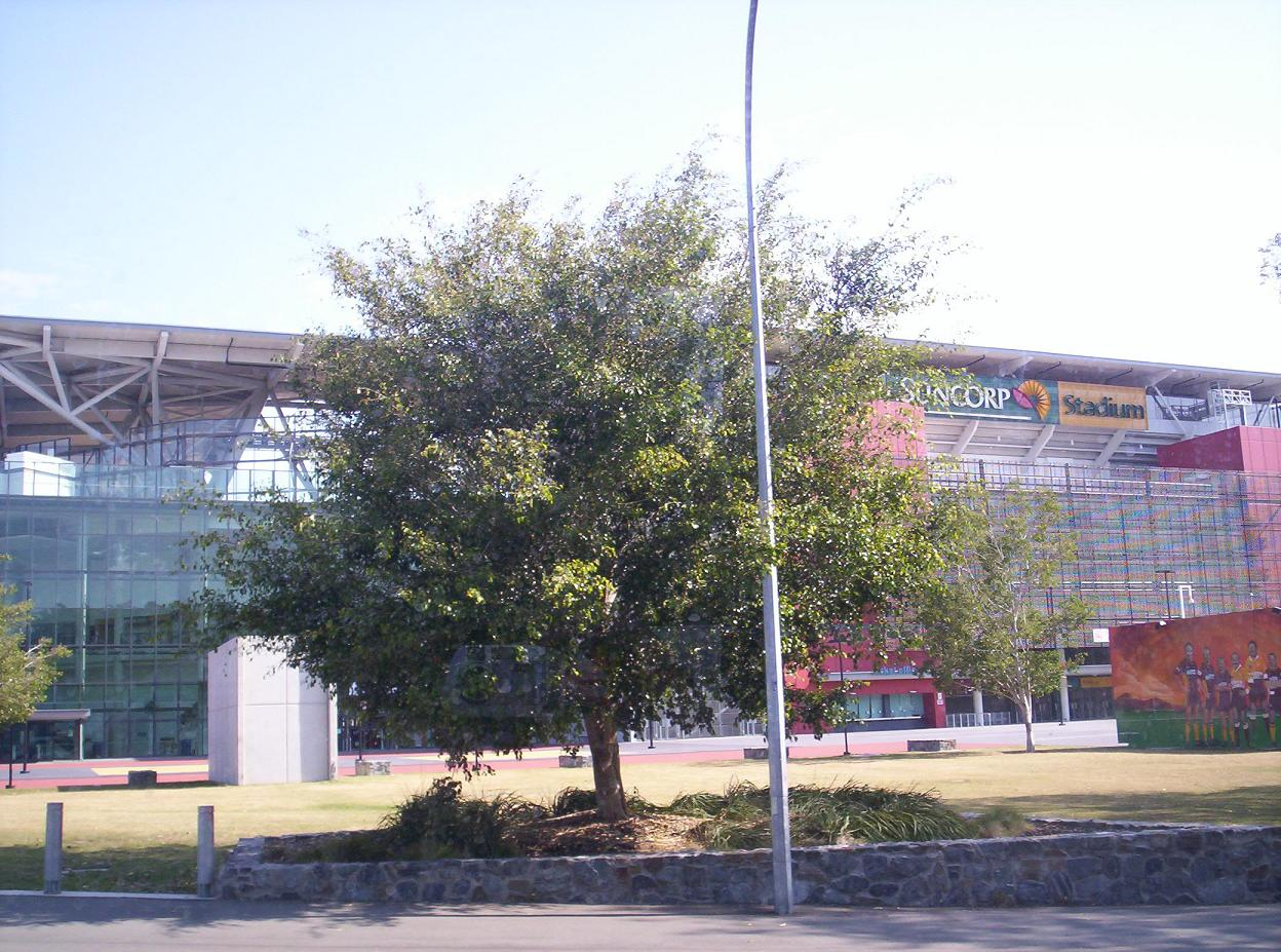 Suncorp Stadium and tree ( this photograph was taken by Figaro )